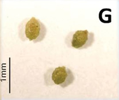 Elatostema malipoense W.T.Wang & Zeng Y.Wu. achenes